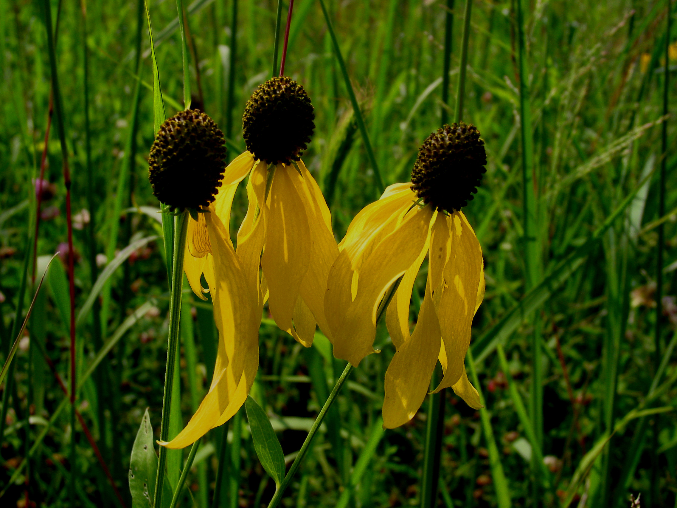 Coneflowers